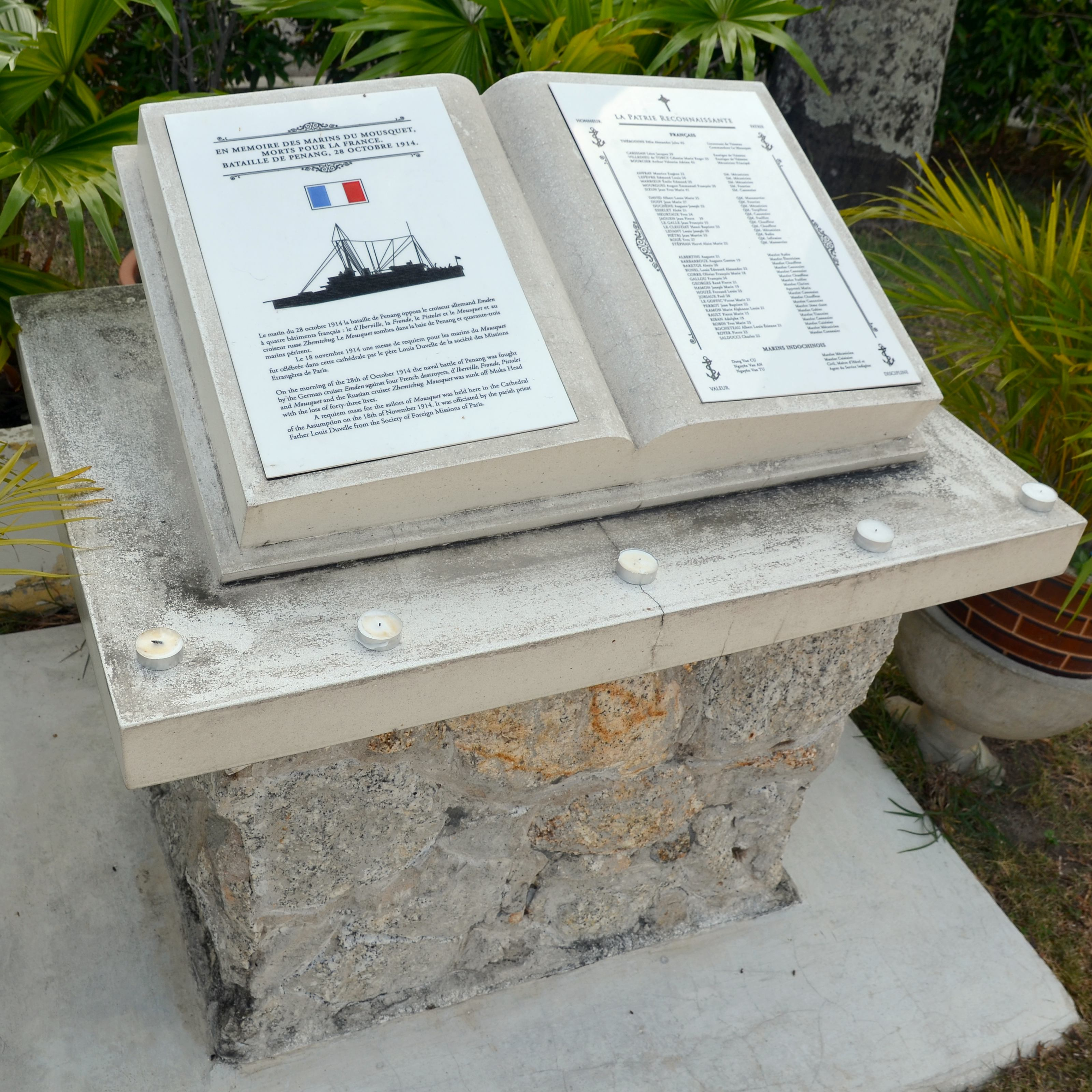 Le Mousquet memorial at the Church of the Assumption, Penang in January 2020.